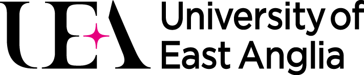 UEA Magenta Horizontal Logo